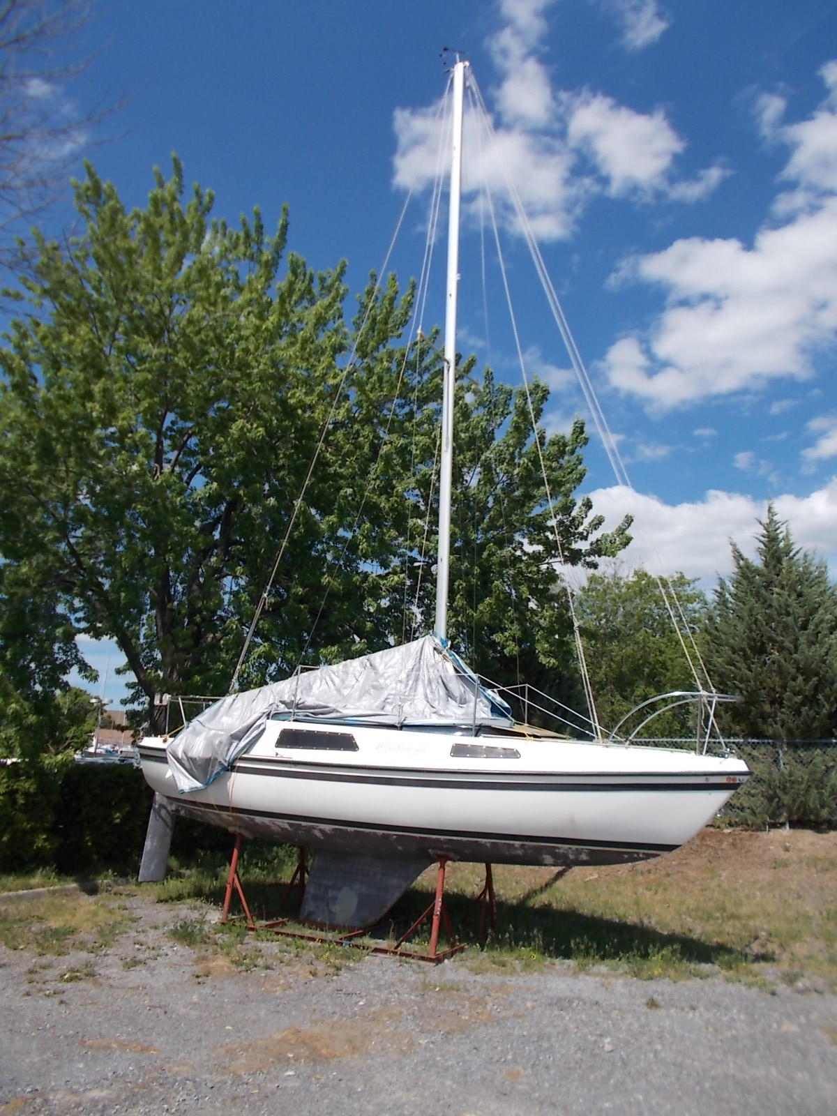 A Sonic 23 sailboat, named Windswept, at Aylmer Marina, Quebec Canada.